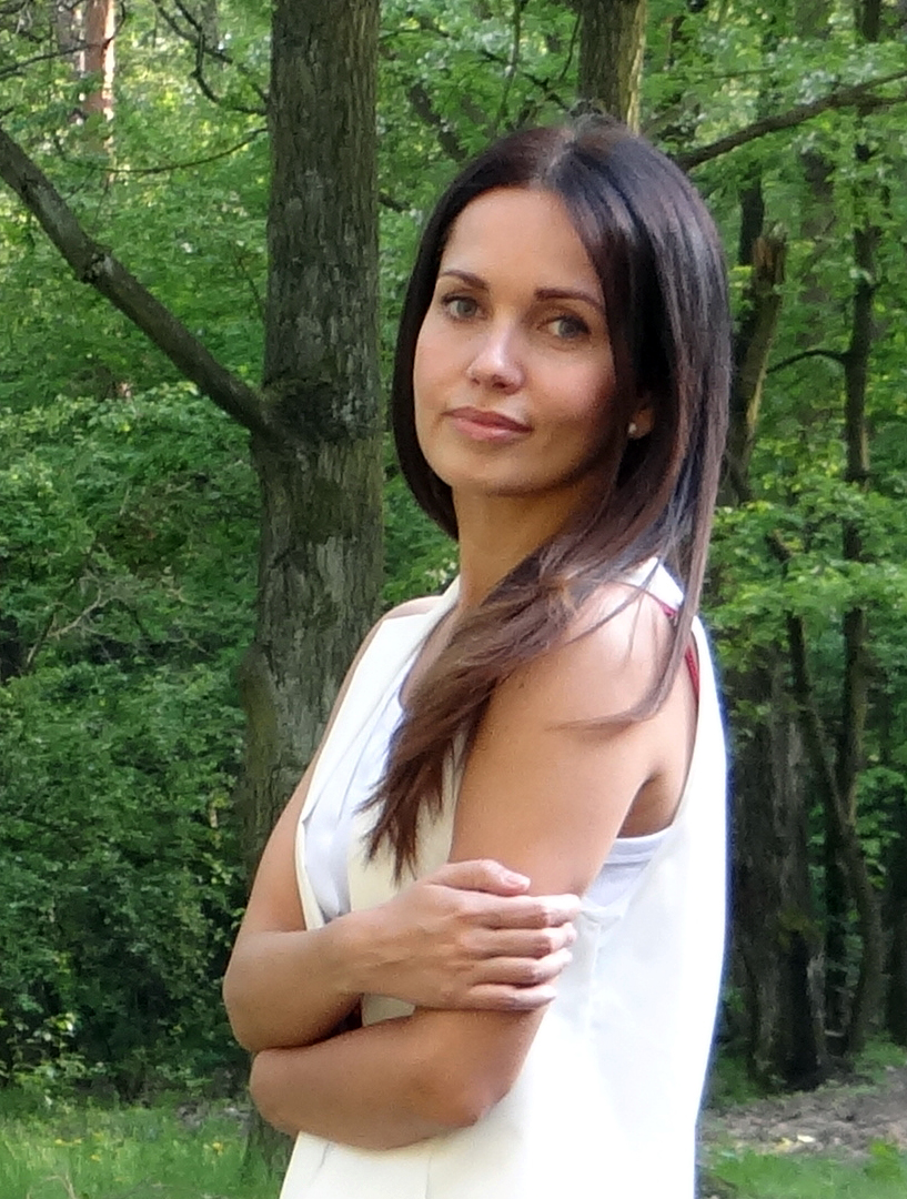 Anna Prus, Polish actress